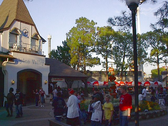 Author: User:Postoak, released to the public domain